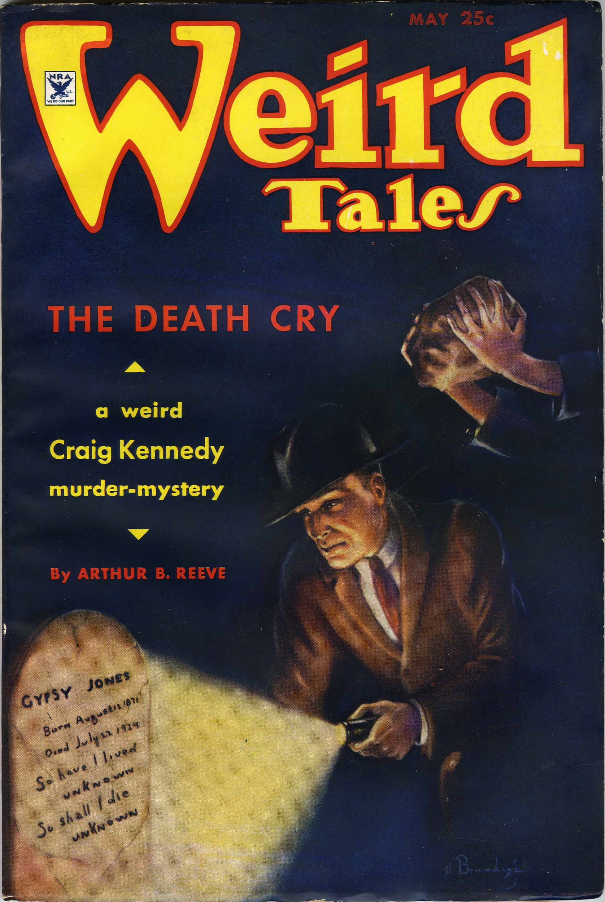 Cover of the pulp magazine Weird Tales (May 1935, vol. 25, no. 5) featuring The Death Cry by Arthur B. Reeve.